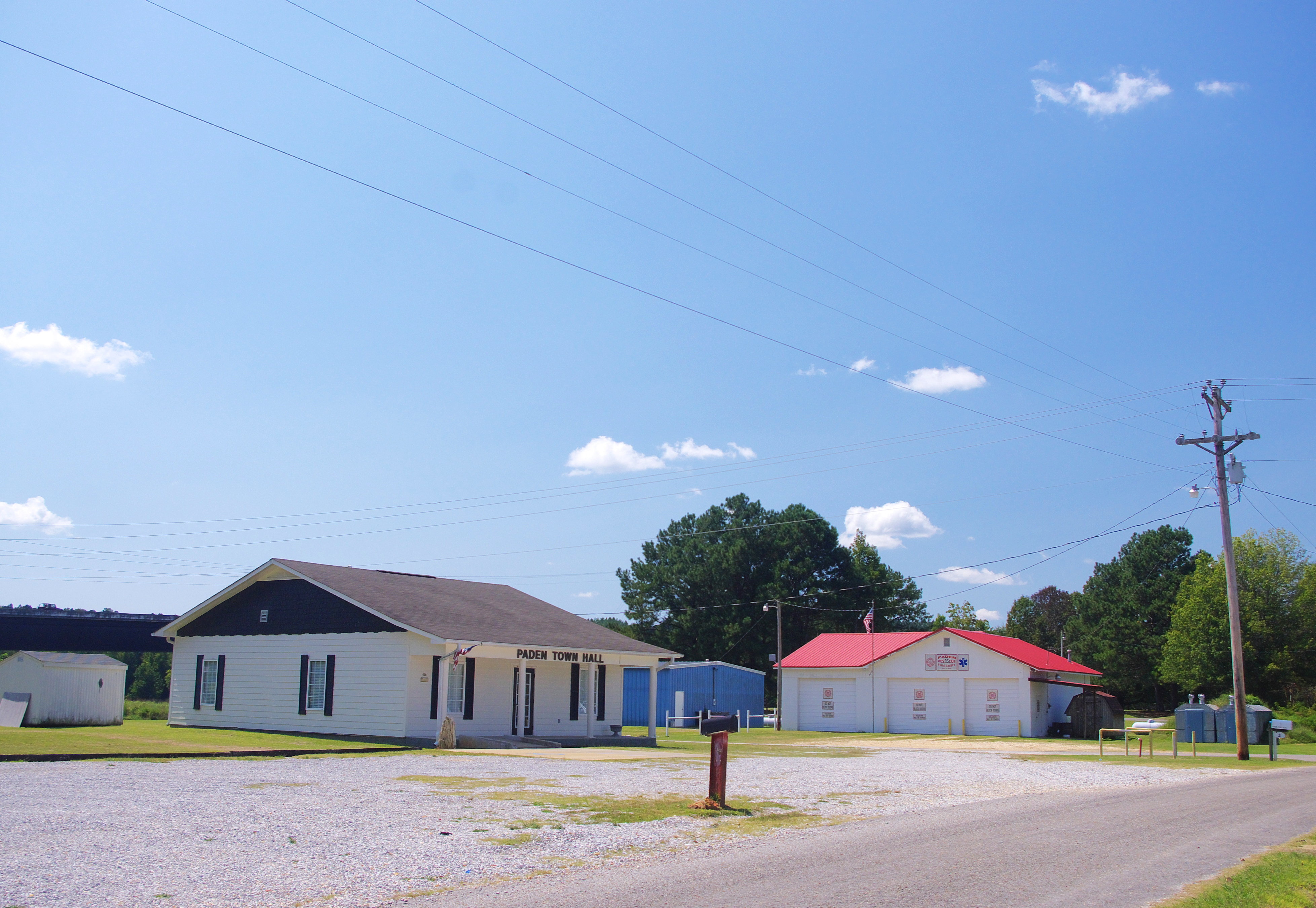 Town Hall and fire department in Paden, Mississippi, United States.